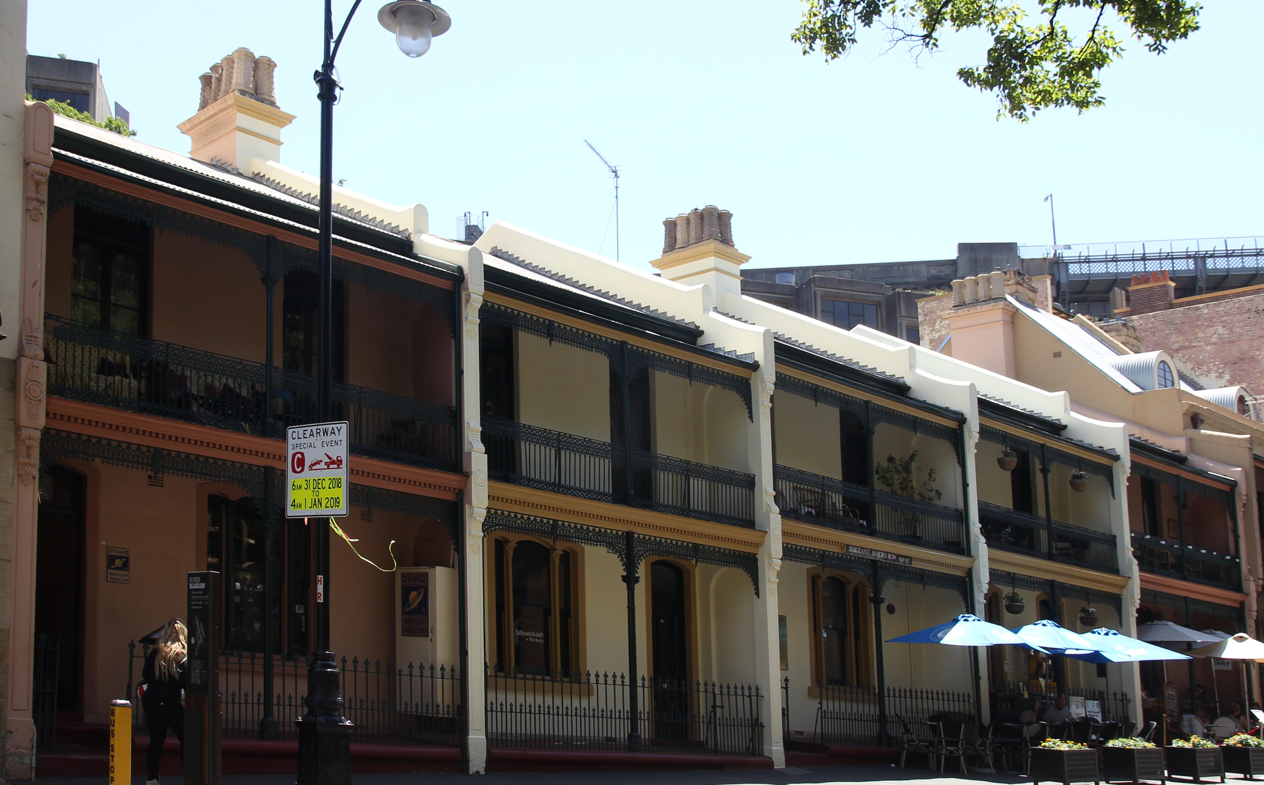 Sergeant Major's Row, 33-41 George Street, The Rock, City of Sydney, New South Wales, Australia